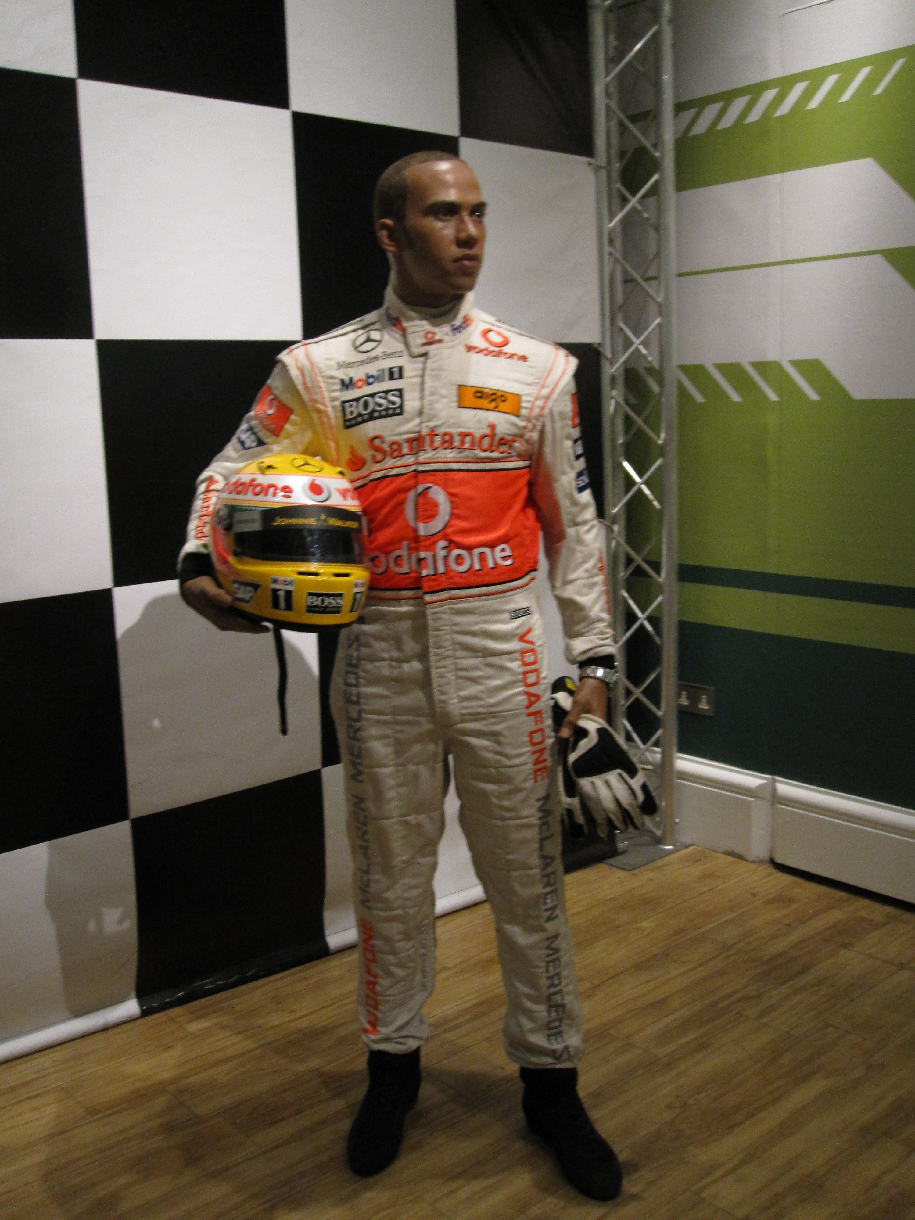 Lewis Hamilton at Madame Tussauds London